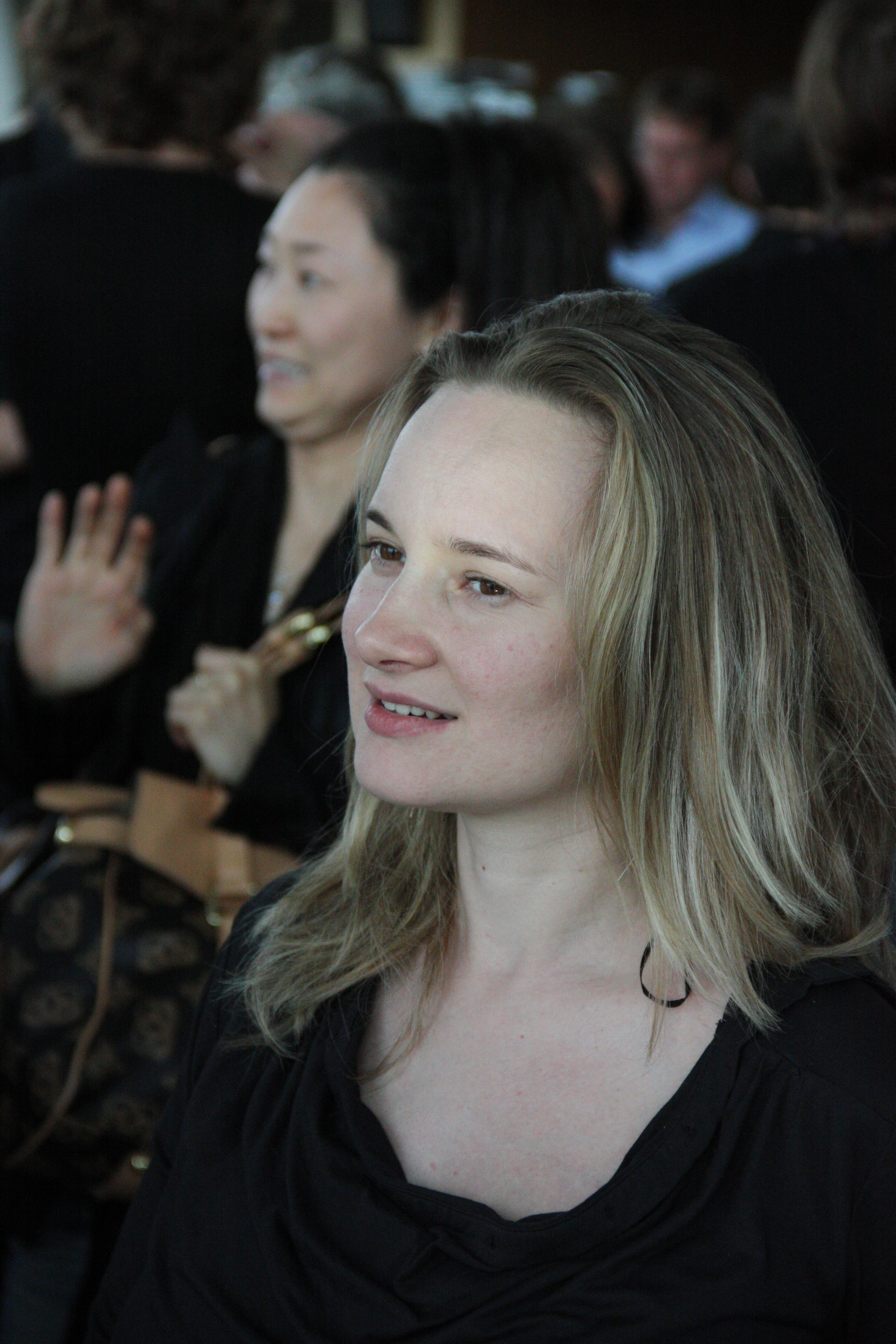 Polish composer Kasia Glowicka, 2010